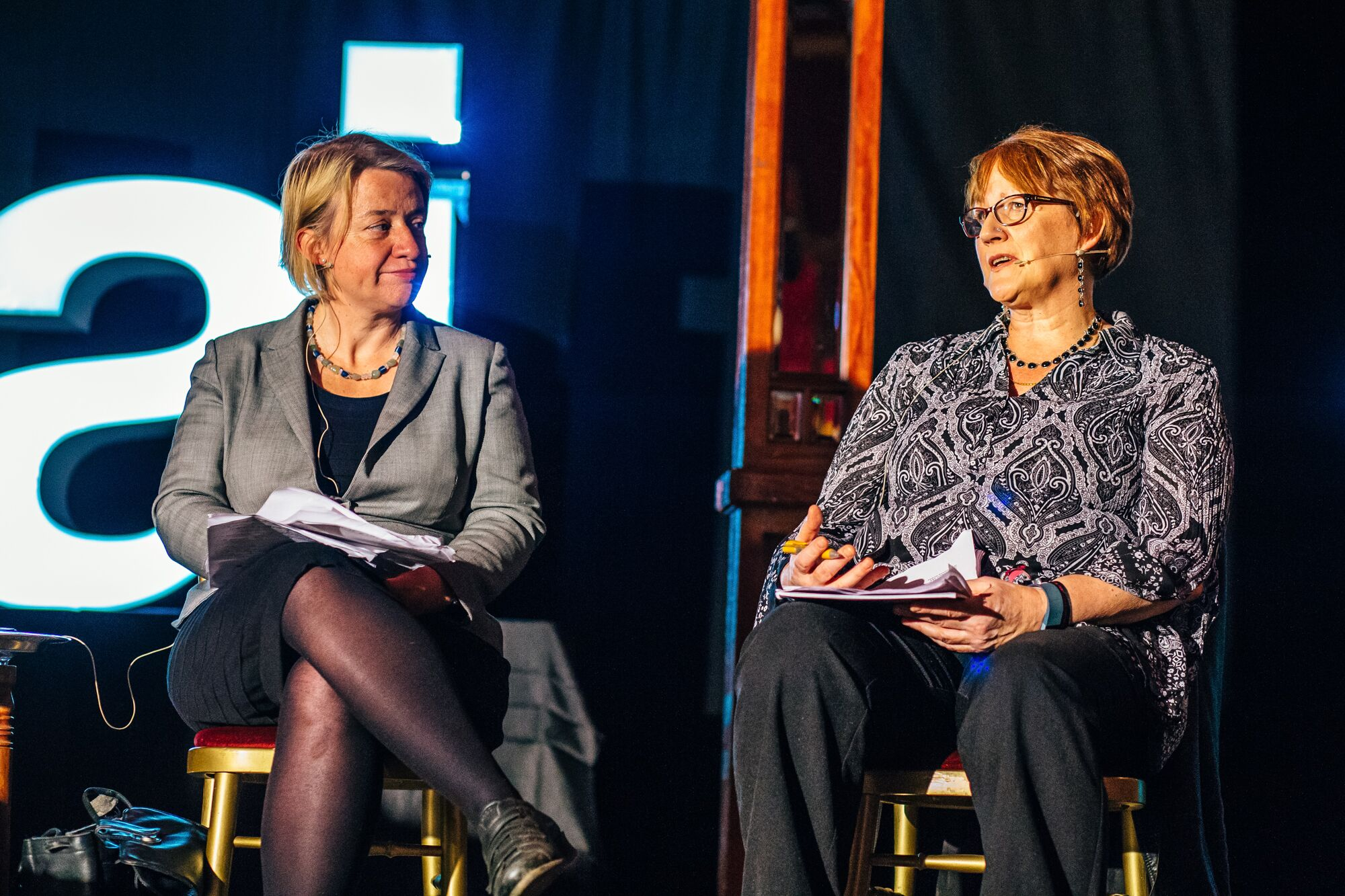 Former Green Party leader Natalie Bennett and Chatham House's Patricia Lewis in debate at HowTheLightGetsIn 2016